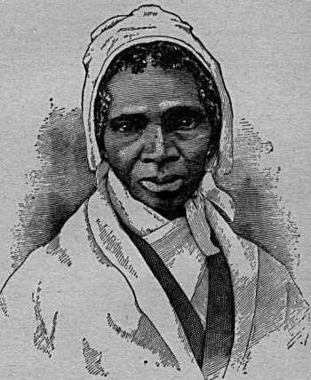 Sojourner Truth